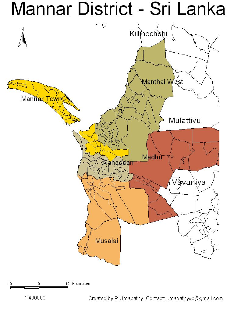 This is a picture of Mannar District in Sri Lanka